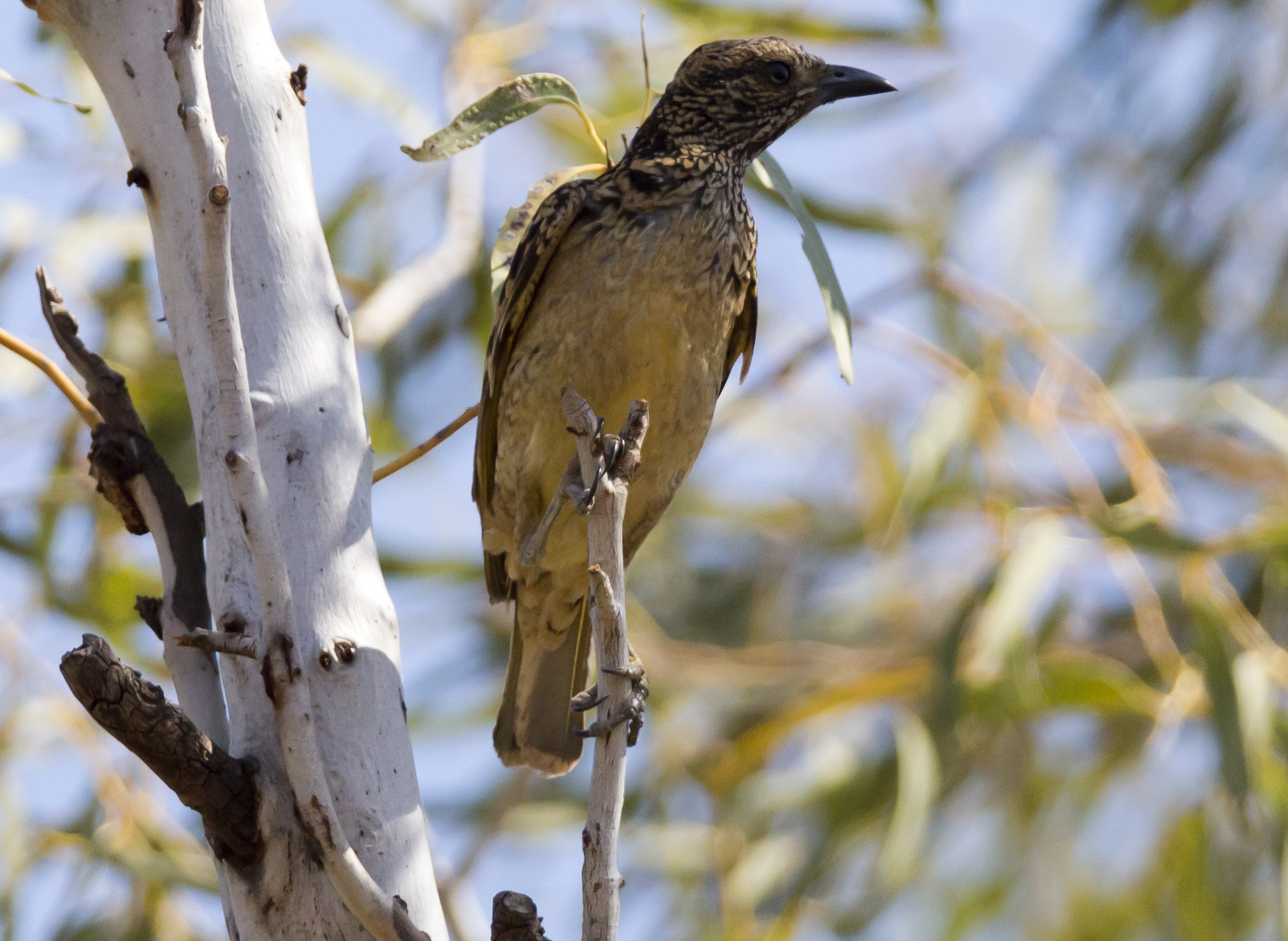 This is a first for me. I think its our only bower bird over this way